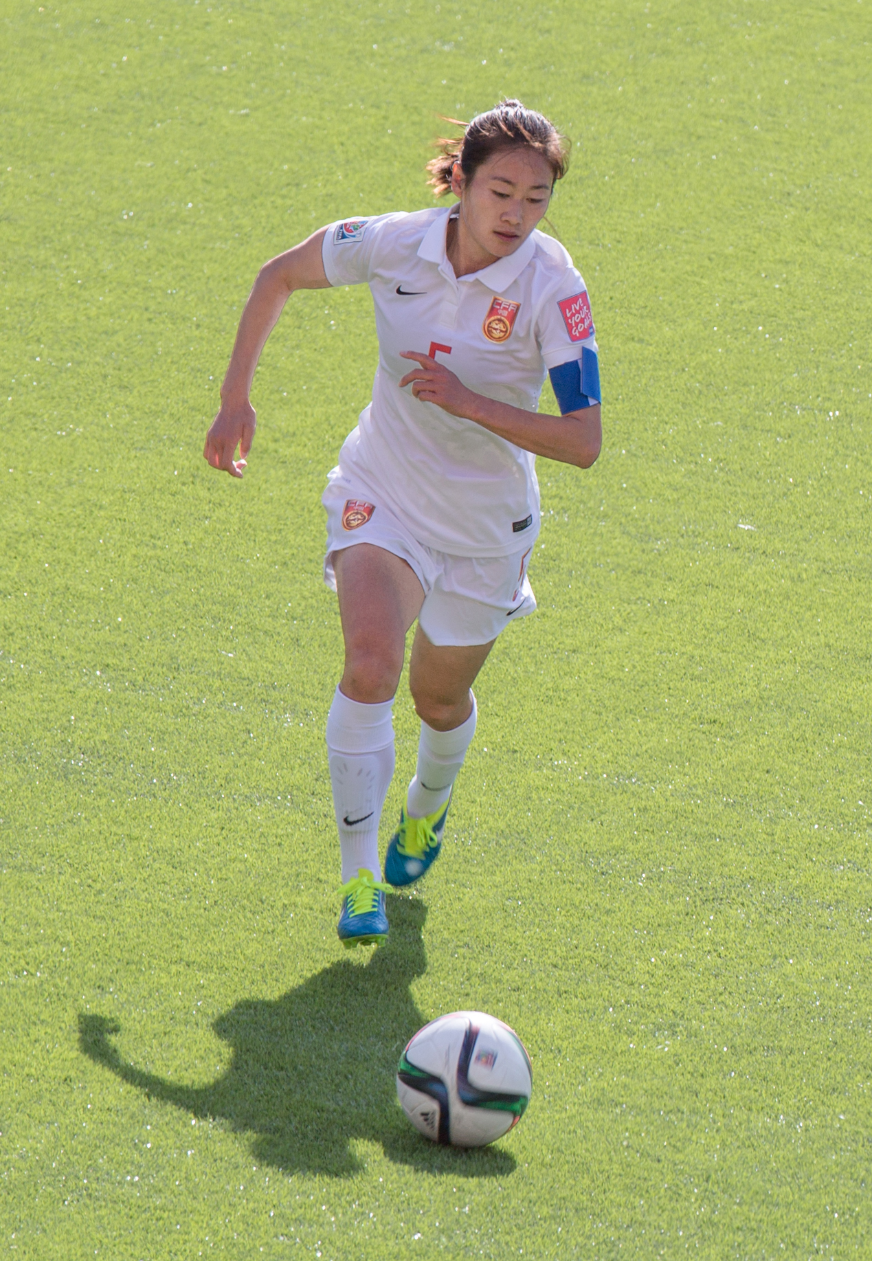 China PR vs Canada. Wu Haiyan (white shirt), Melissa Tancredi (red)